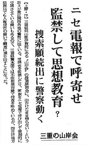 Mainichi Shimbun newspaper clipping (5 July 1959 issue)